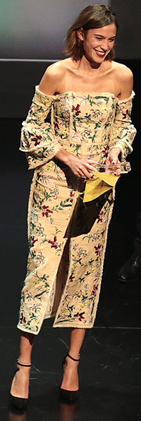 Establishment Designer: A British womenswear or menswear ready-to-wear designer who has a strong global retail & e-commerce footprint and is a bastion of British fashion. WINNER: Erdem Presented by Alexa Chung